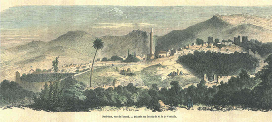 Nédroma, view from the west, picture of Dr Verdalle.